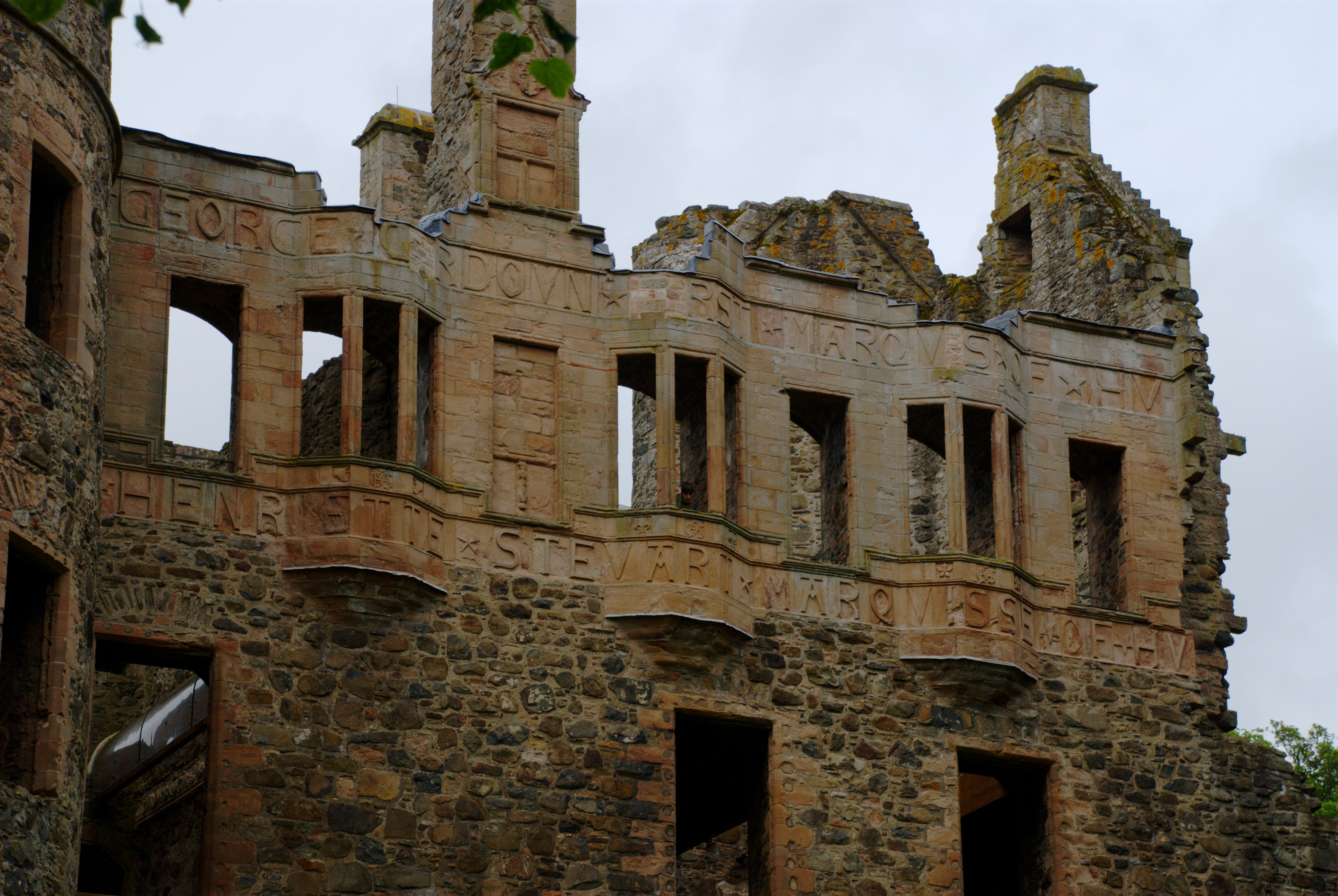 Detail of the inscriptions at the front of Huntly Castle